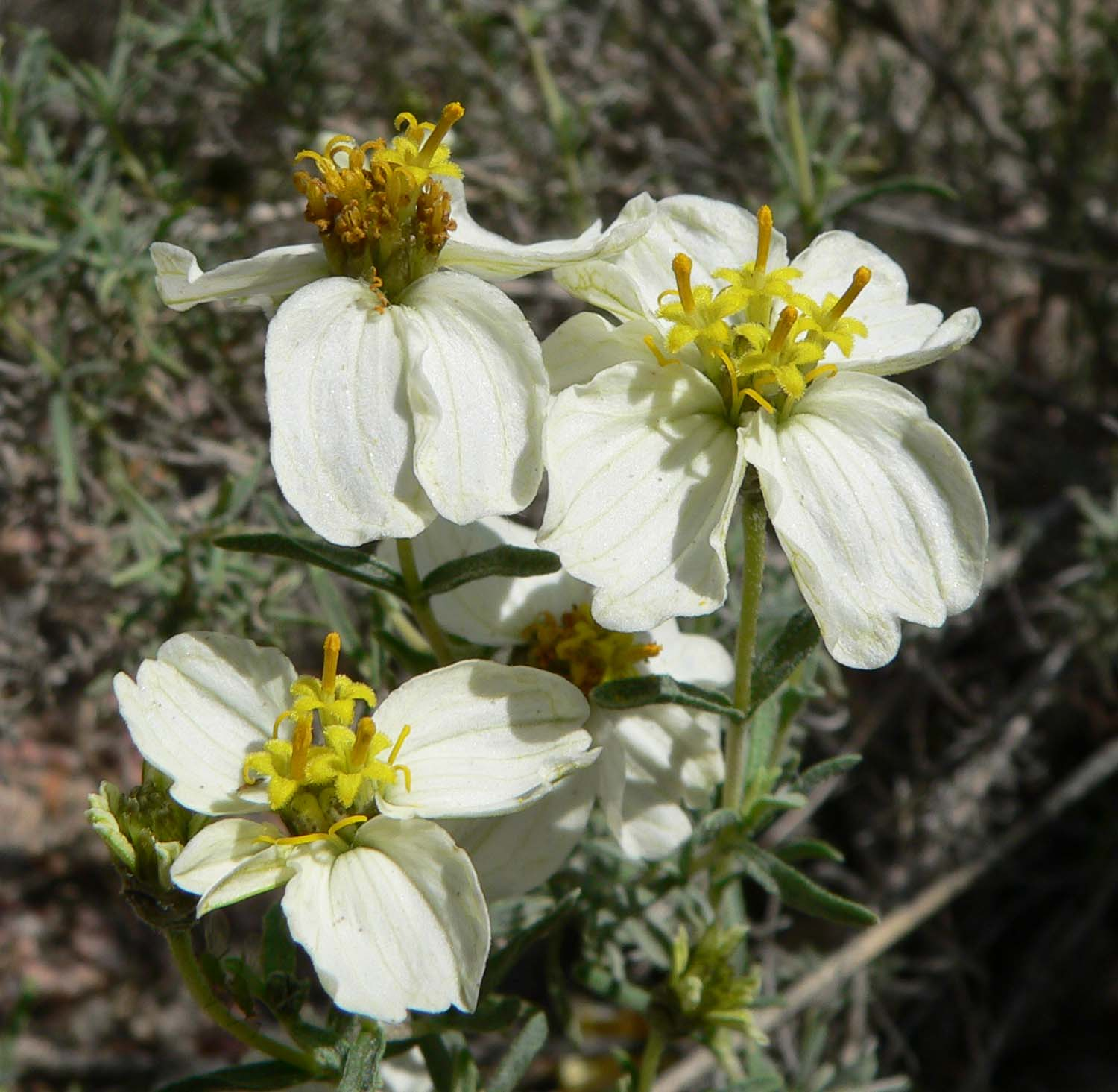 Photo of Zinnia acerosa (desert zinnia) at the Desert Demonstration Garden in Las Vegas, Nevada